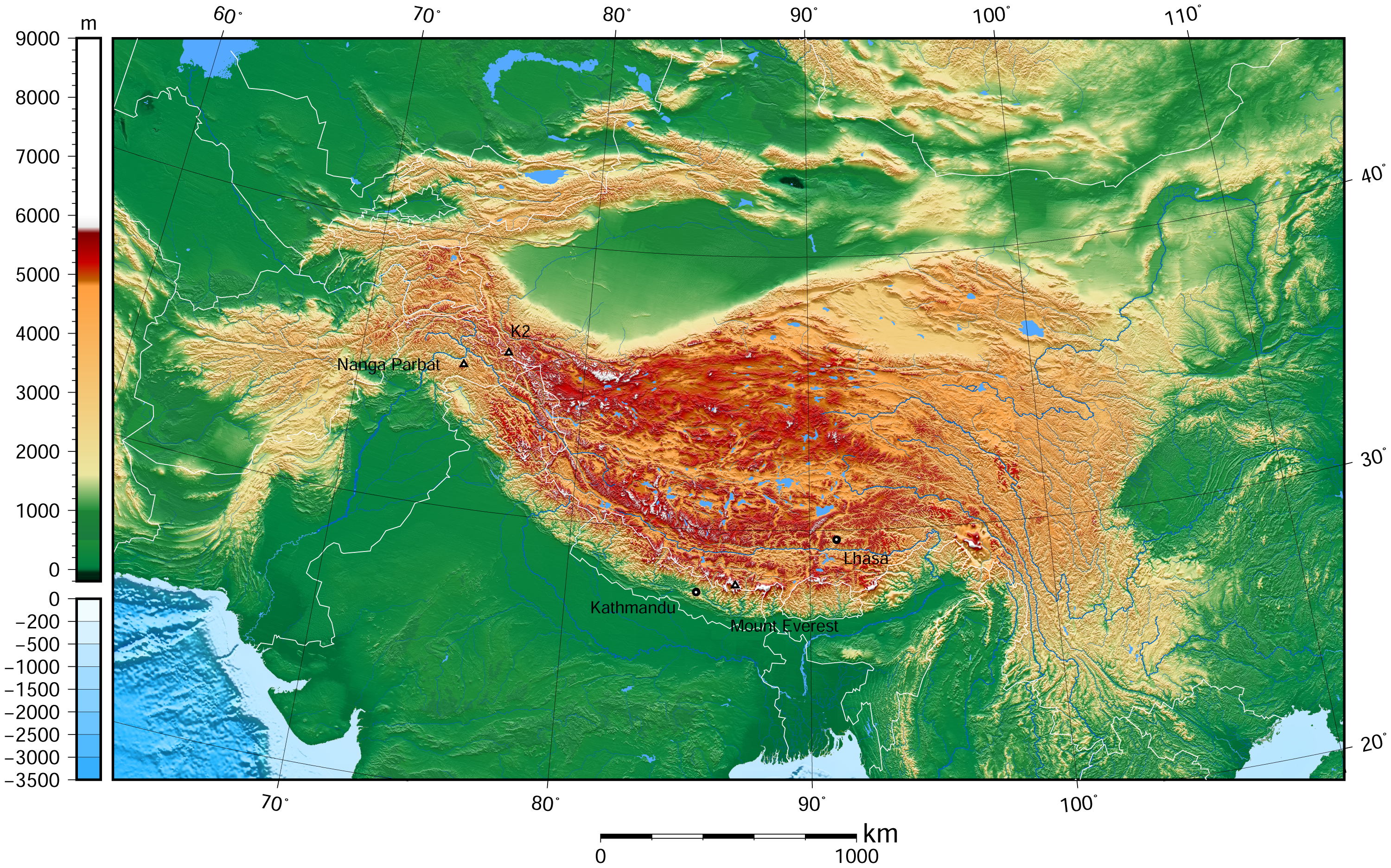 Tibet and surrounding areas topographic map. The map was created using the Generic Mapping Tools, GMT, version 5.1.2.